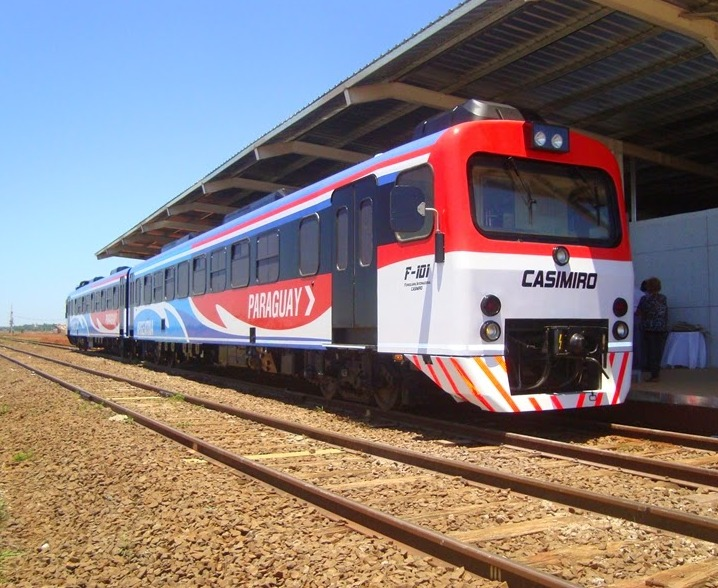 Posadas-Encarnación rolling stock at Posadas station.